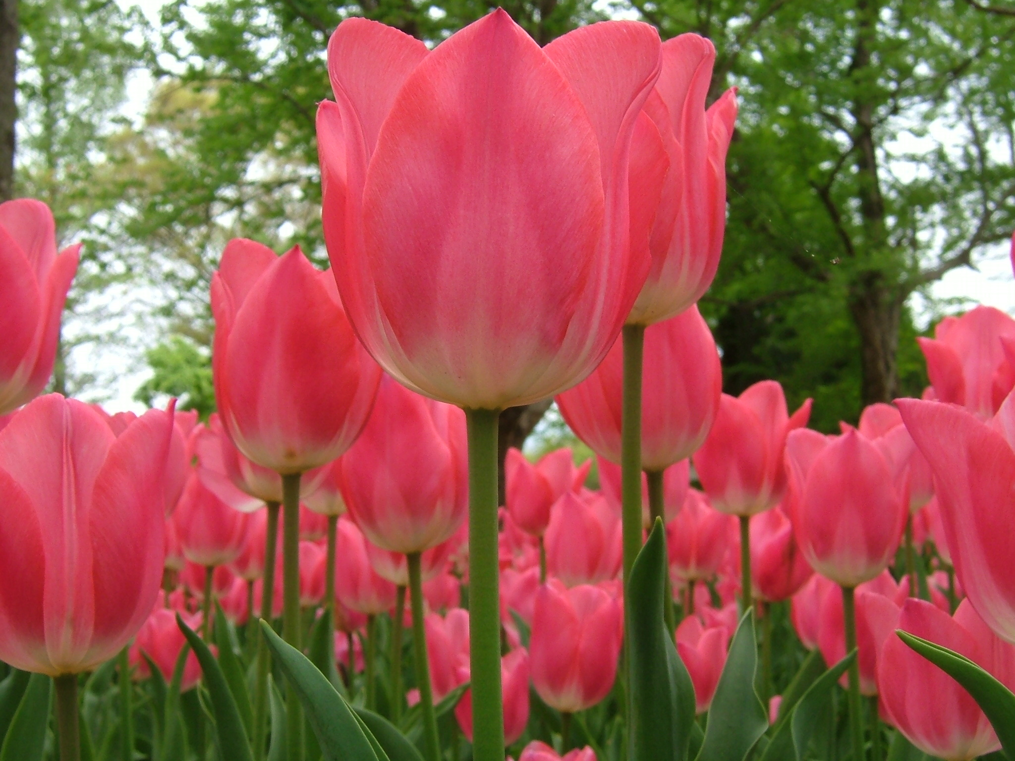 Single Early Tulipa 'Christmas Dream' (L.J.C.Schoorl 1973), Kyoto Botanical Garden